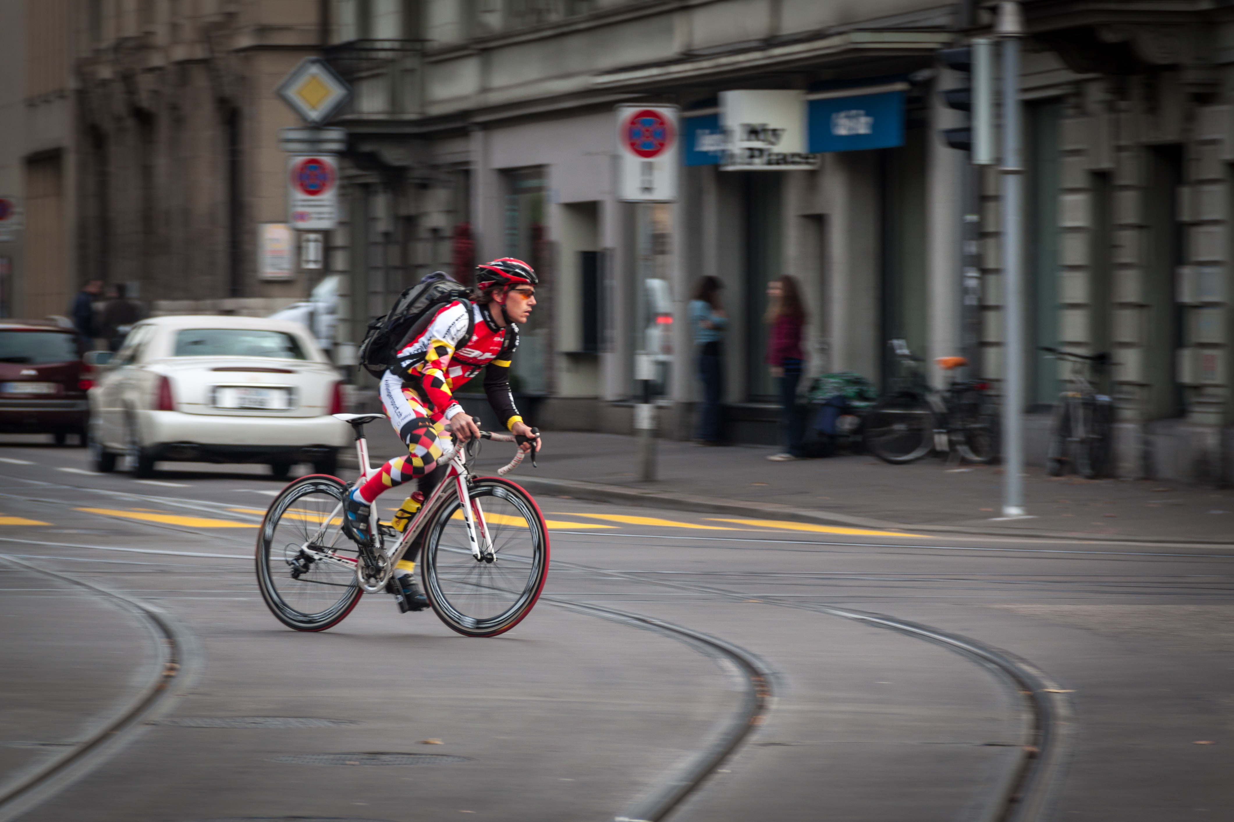 A fast sportsman on a road bicycle in Zürich.